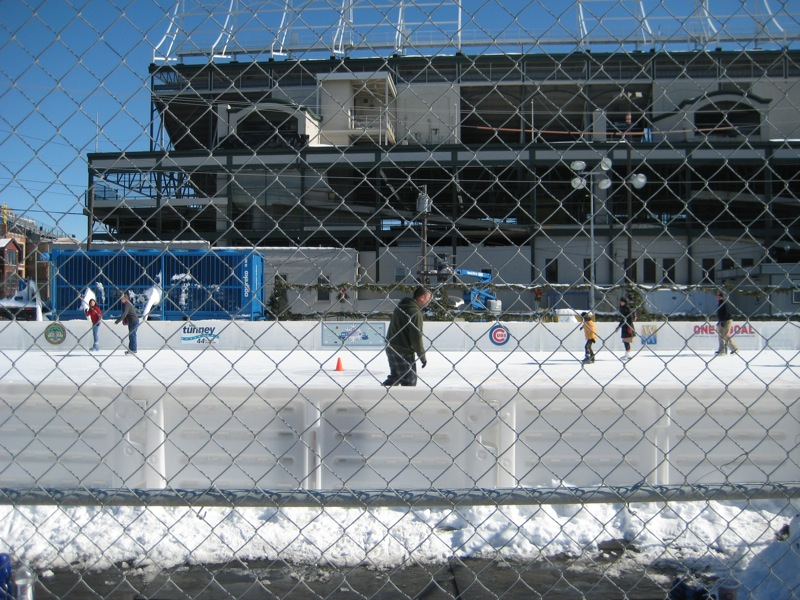 This was the site of the Collins & Wiese Coal Company coal field until 1961 when it was demolished. The land was bought by Henry's Drive-In, Inc, and a restaurant and 200 car parking lot was eventually built there. The transaction was the largest real estate deal involving a drive in to date. The drive in restaurant building was recently removed, and the temporary ice rink was put at the site of the parking lot for the off season.